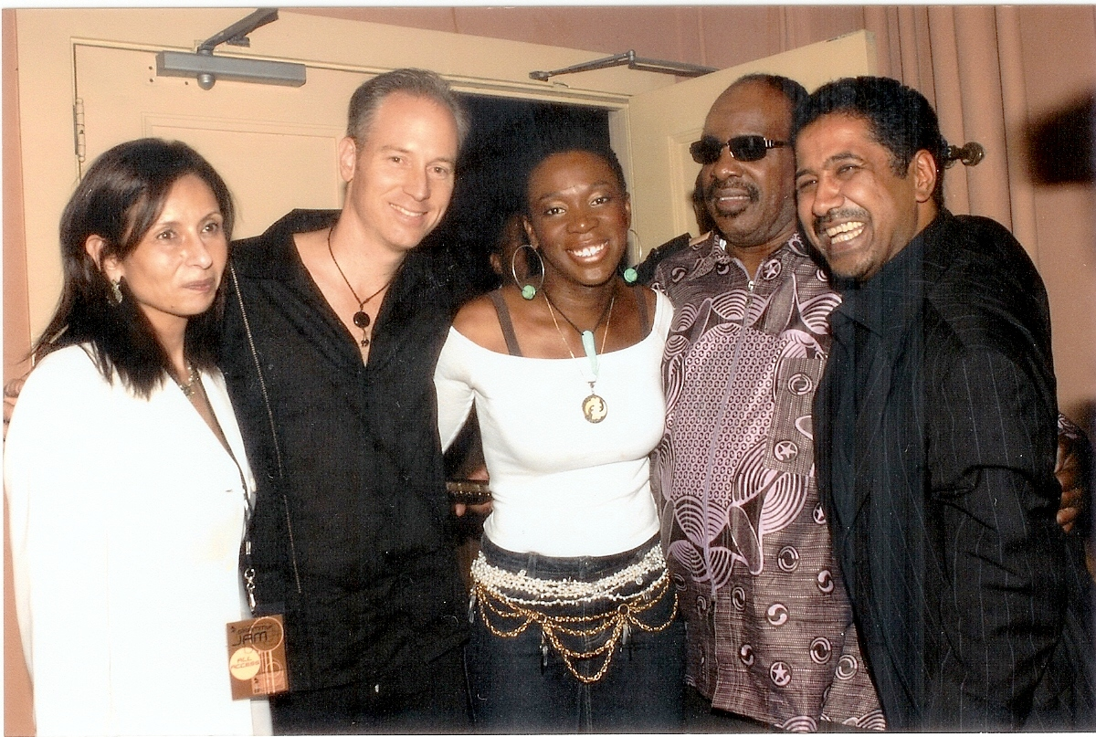 Dawn Elder, KC Porter, Indie Ari Stevie Wonder, Cheb Khaled, Grammy Jam Grammy Foundation event